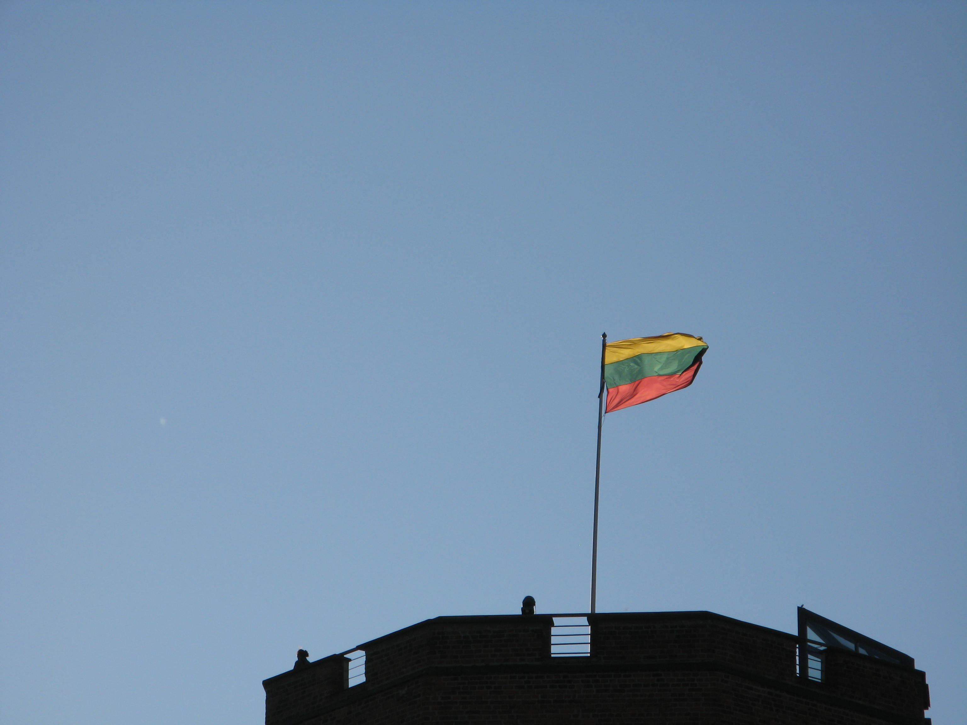 Flag of Lithuania on top of Vilnius Castle Complex